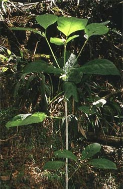 Kratom (Mitragyna speciosa). From the DEA's Office of Forensic Sciences' newsletter, Microgram, March 2006; [1]